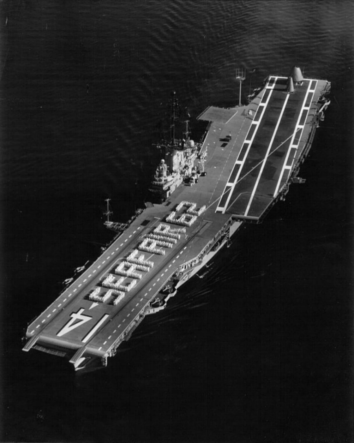 A photo of USS Ticonderoga (CVA-14) with her crew spelling out "SEAFAIR 62" on the flight deck. The photo was taken on 29 July 1962.